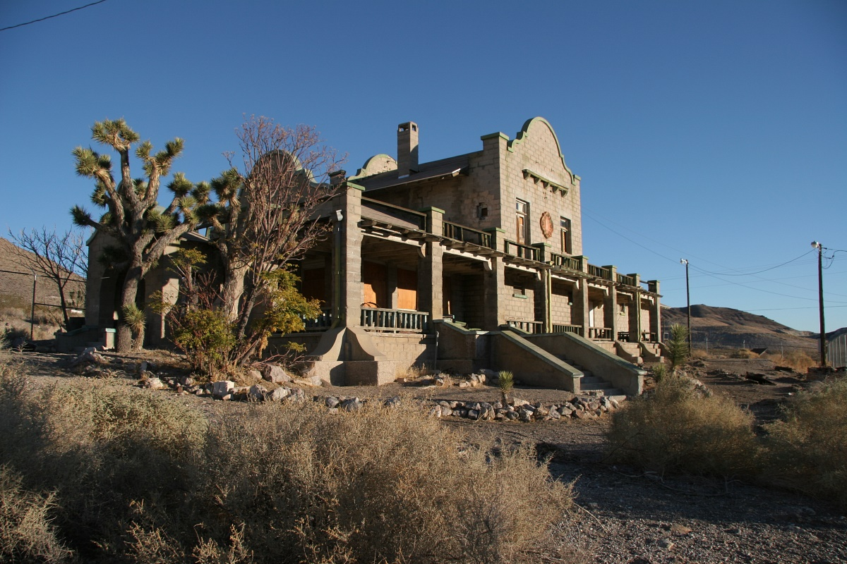 Train Station, Rhyolite, Nevada